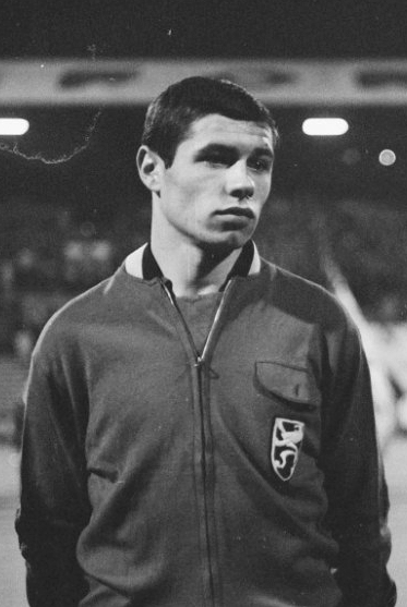 Football player Wilfried Puis at 1964 Olympic Games in Tokyo.